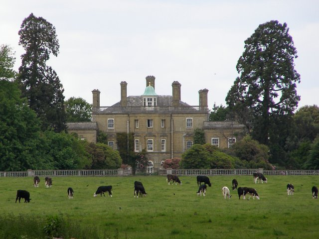 Pylewell House. A telephoto shot from the permissive path that runs along the edge of the estate by the Solent shore. The Hampshire Treasures resource lists the following facts about the house: "Brick, partly plastered with slate roof. Cellars and basement of stone, considerably older construction. 3 storeys and attic in main block. 2 storeys and attic in wings. 11-window front. Doric pillared porch with pediment, Roman-Catholic chapel once built into house destroyed in C.19."